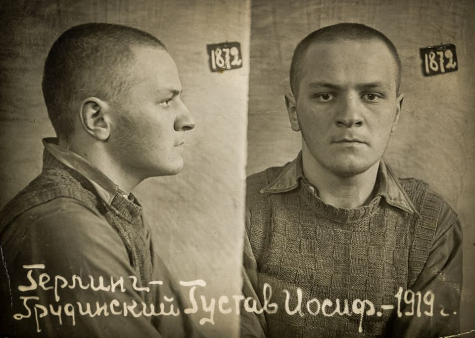 Gustaw Herling-Grudziński. Photo taken in Hrodna's jail in 1940